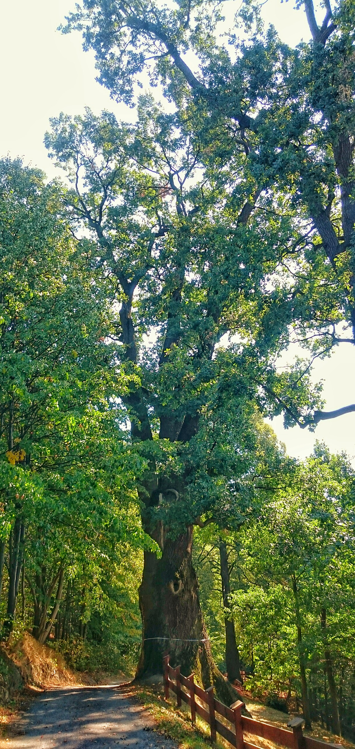 Trunk of the Mieszko - English oak, with 8.56m girth and 30m tall.